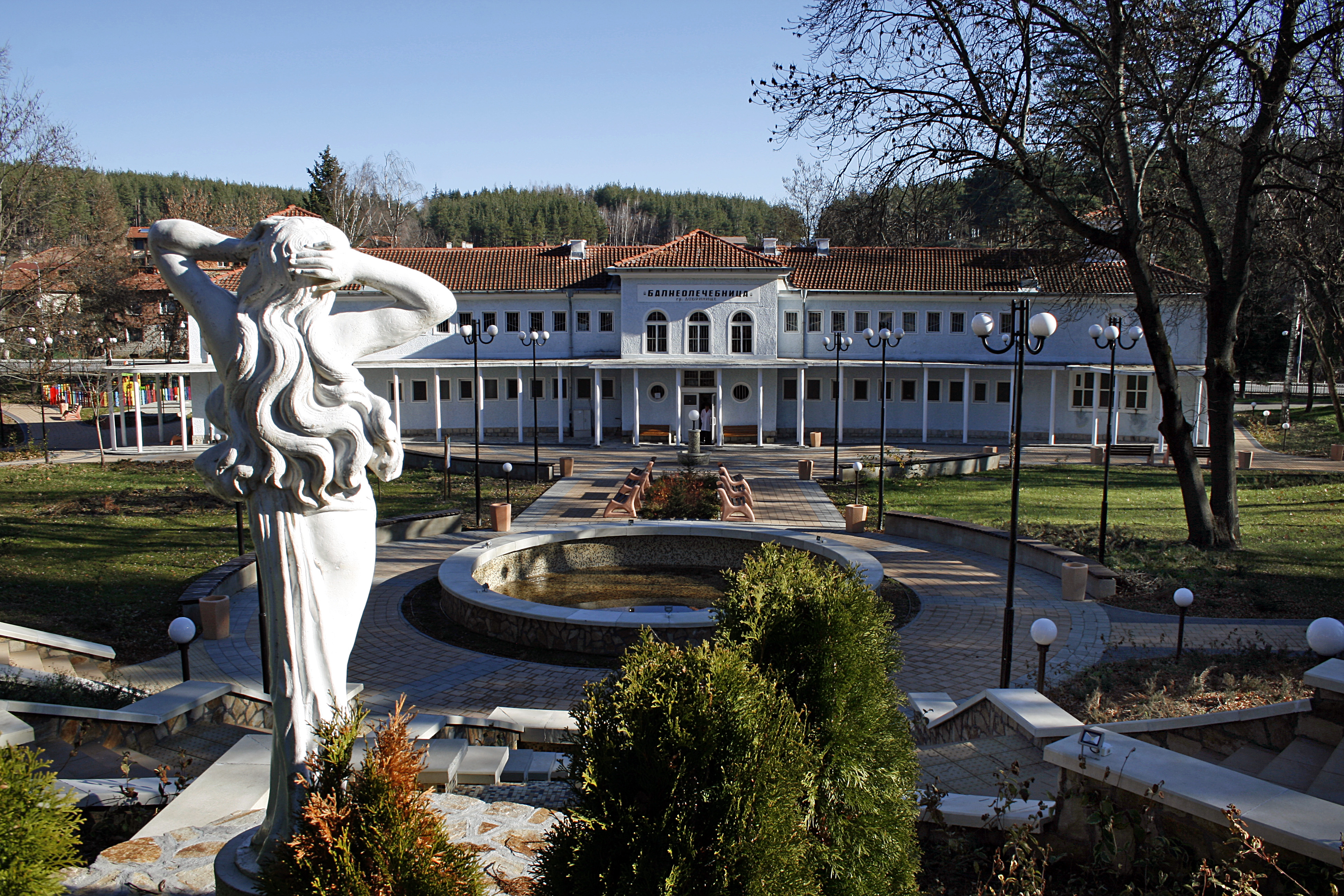 mineralnata banq